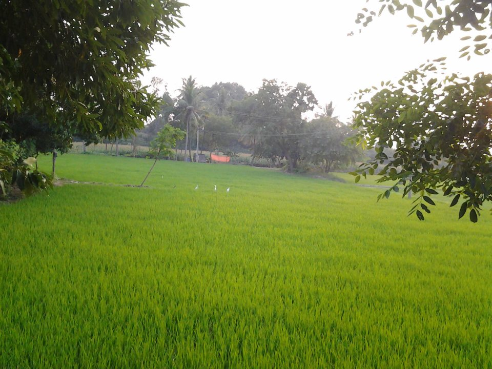 Agriculture land in Vanniyan viduthy